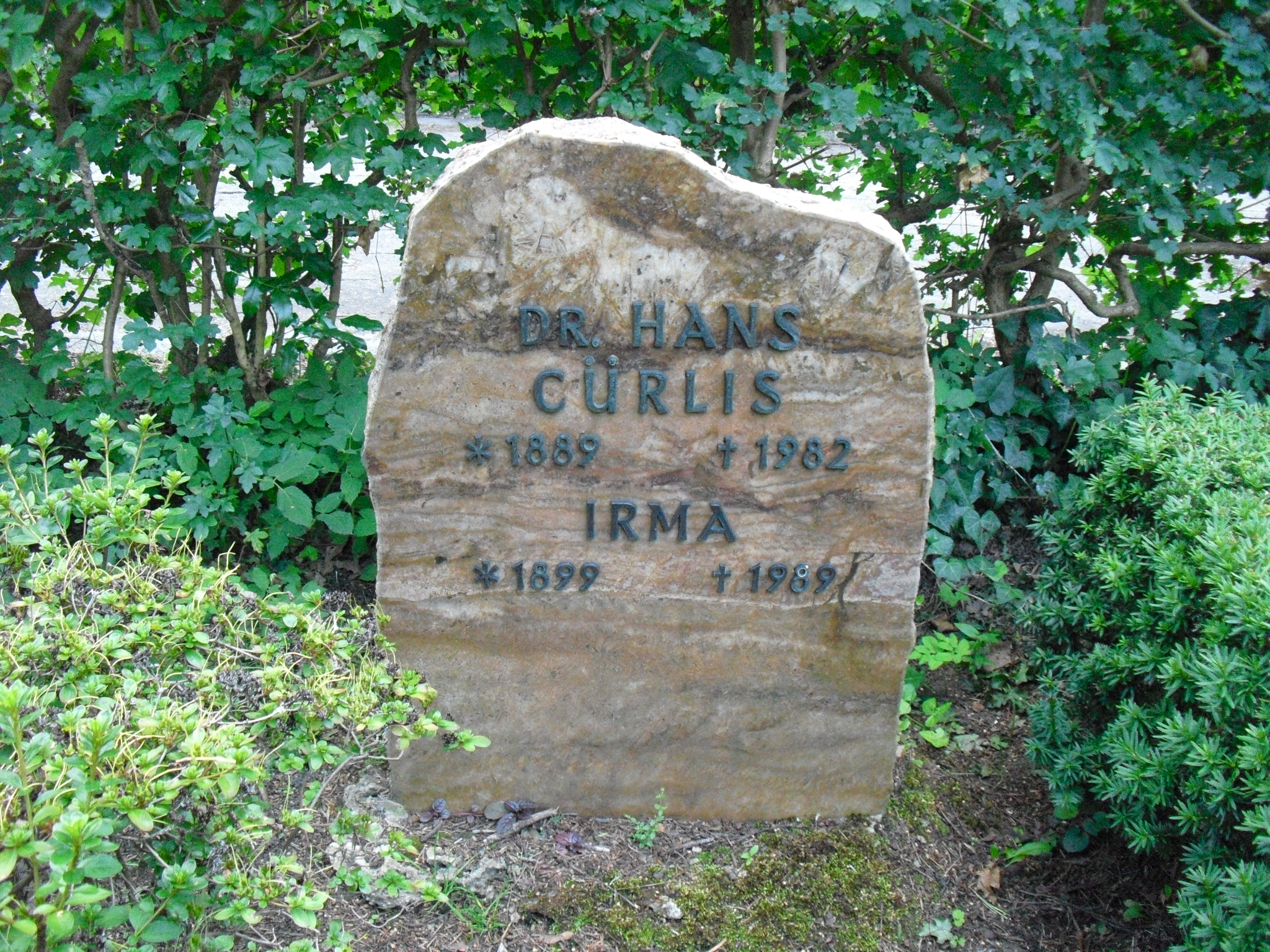 Grave of German documentary filmmake rand film producer Hans Cürlis in Friedhof Steglitz, Berlin.